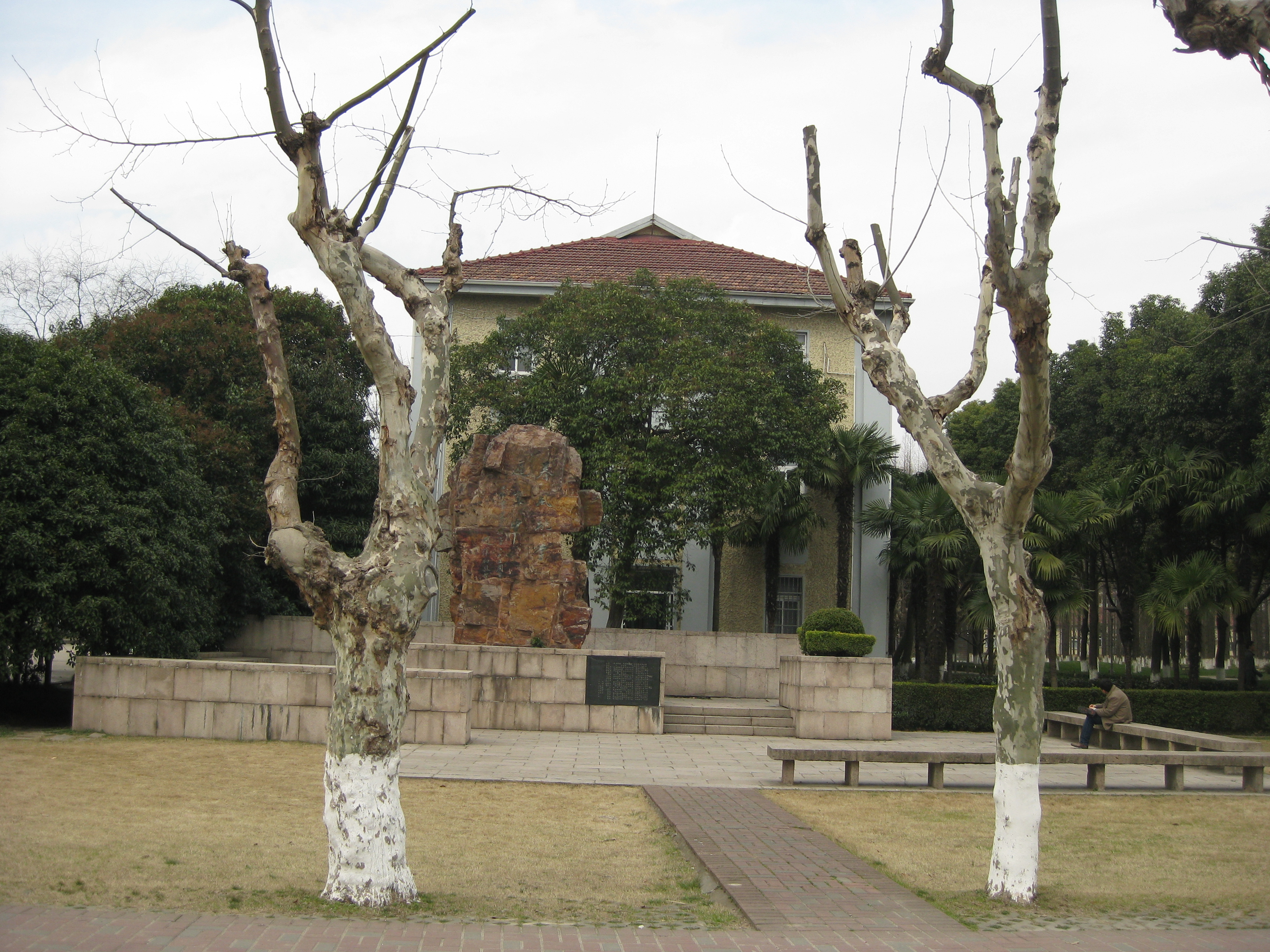 A picture of the SHSID rock.